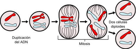 From tanslated in french by WεFt 16:54, 4 Apr 2005 (UTC) Original image